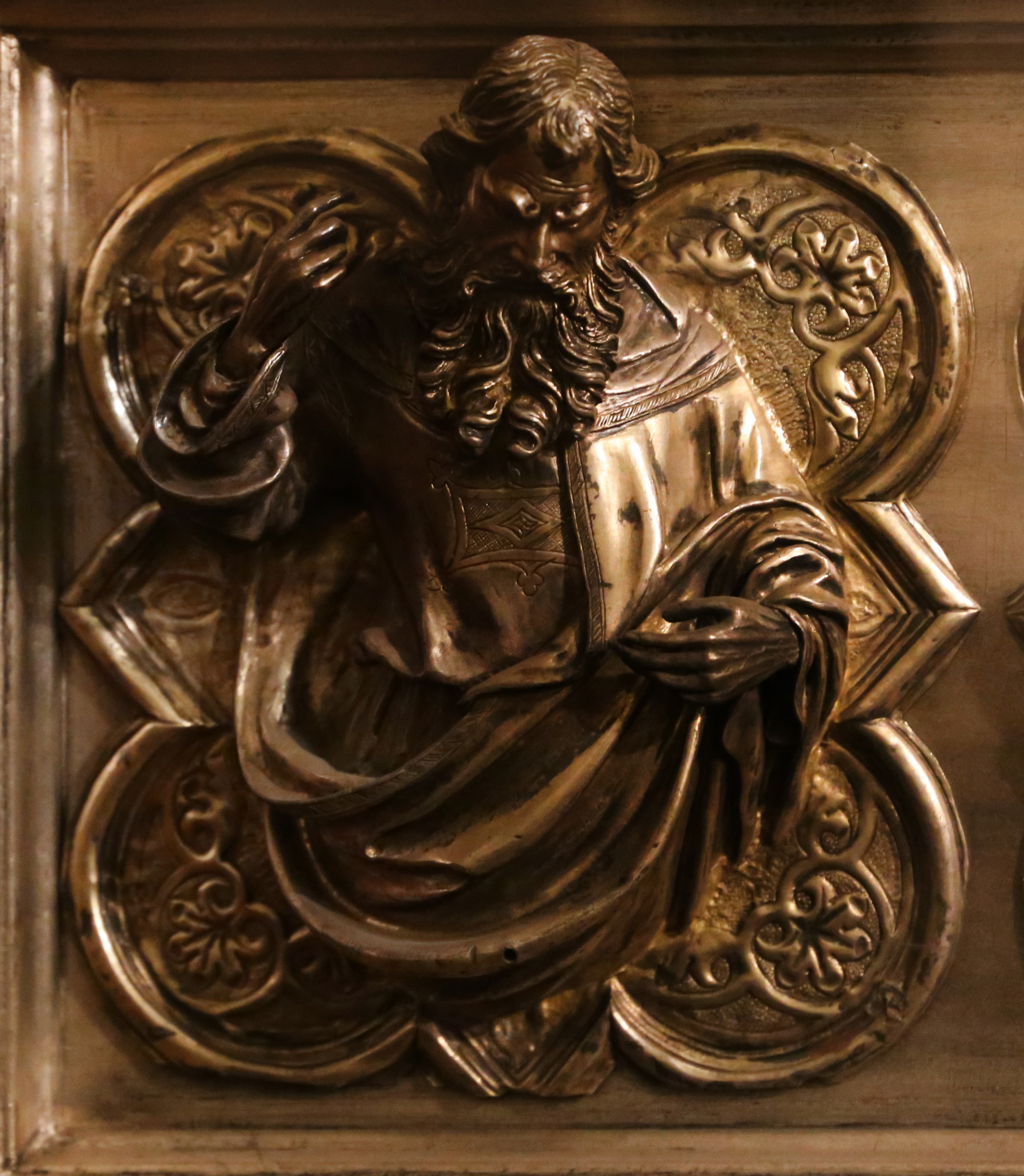 Silver Altar of Saint James